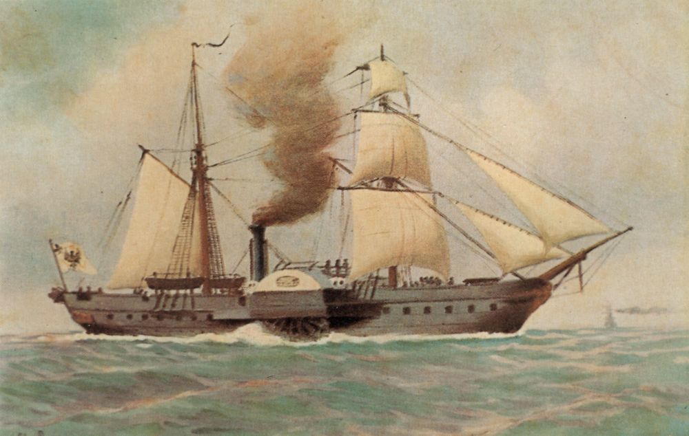 The SMS Barbarossa painted by Christopher Rave.